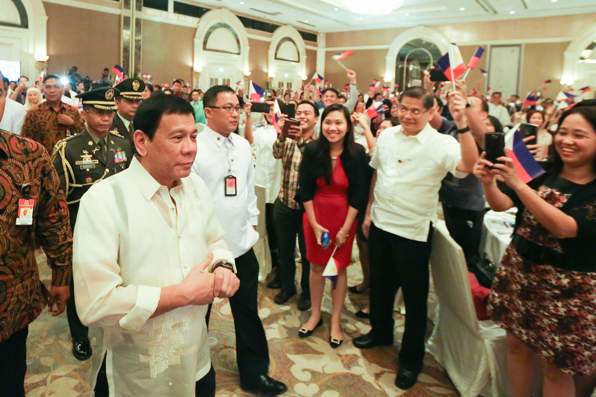 President Rodrigo Duterte meets with Filipino community in Indonesia during his working visit in the country on September 9. KING RODRIGUEZ/ PPD